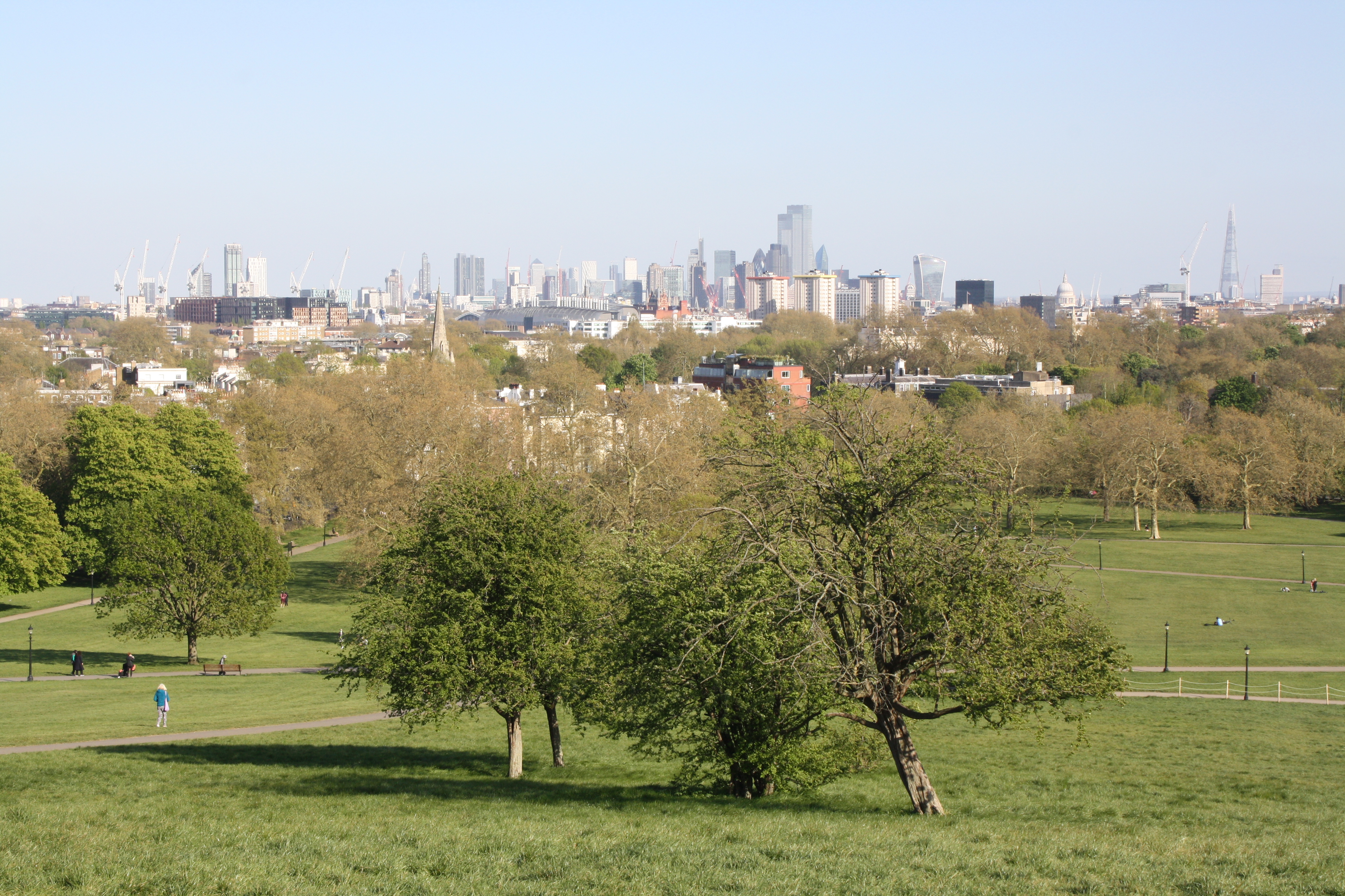 A view from the top of the park Primrose Hill